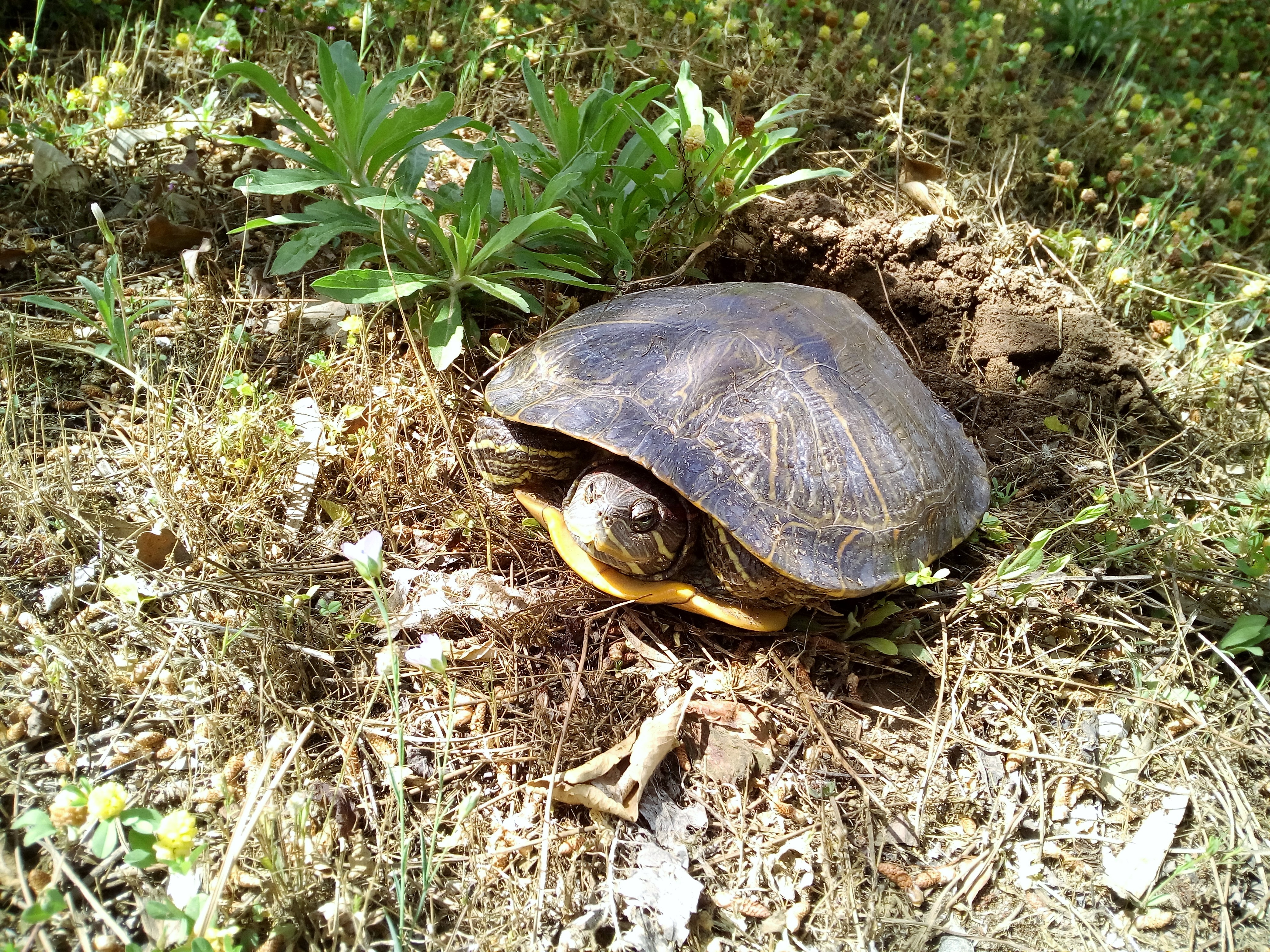 Kaiafas lake (Λίμνη Καϊάφα), Elis, southwestern Greece This is a photography of Natura 2000 protected area with ID GR2330005